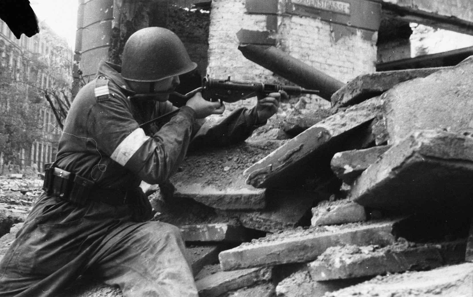 Warsaw Uprising in Poland, 1944. Polish Home Army soldier from battalion OW – KB „Sokół” on the na barricade Bracka street (9-12) near Nowogrodzka street.